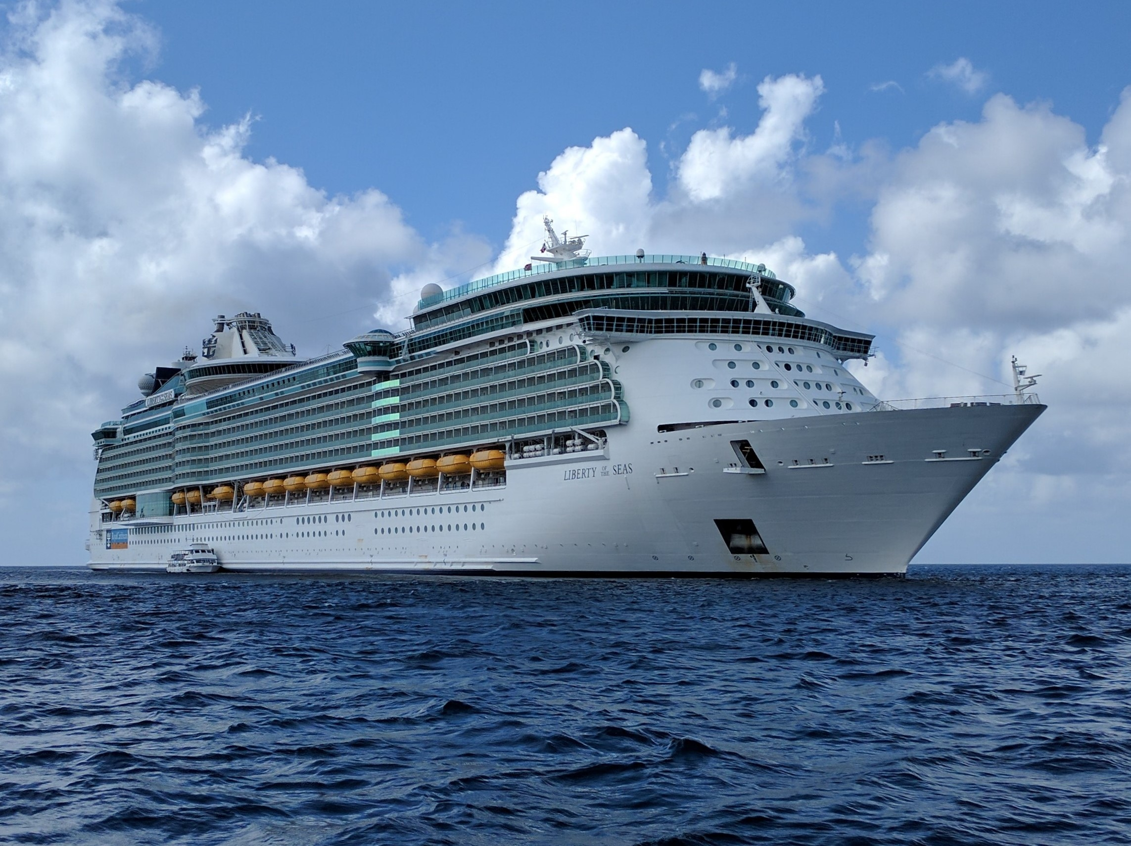 Royal Caribbean Liberty of the Seas anchored at Grand Cayman on December 22, 2016.